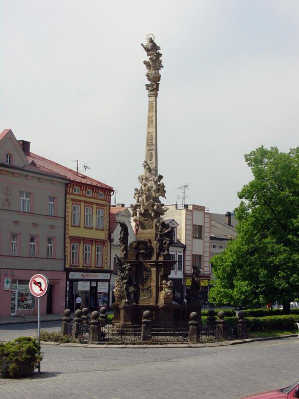 Marian plague column by Matthias Bernard Braun in the square in Jaroměř, Czech Republic